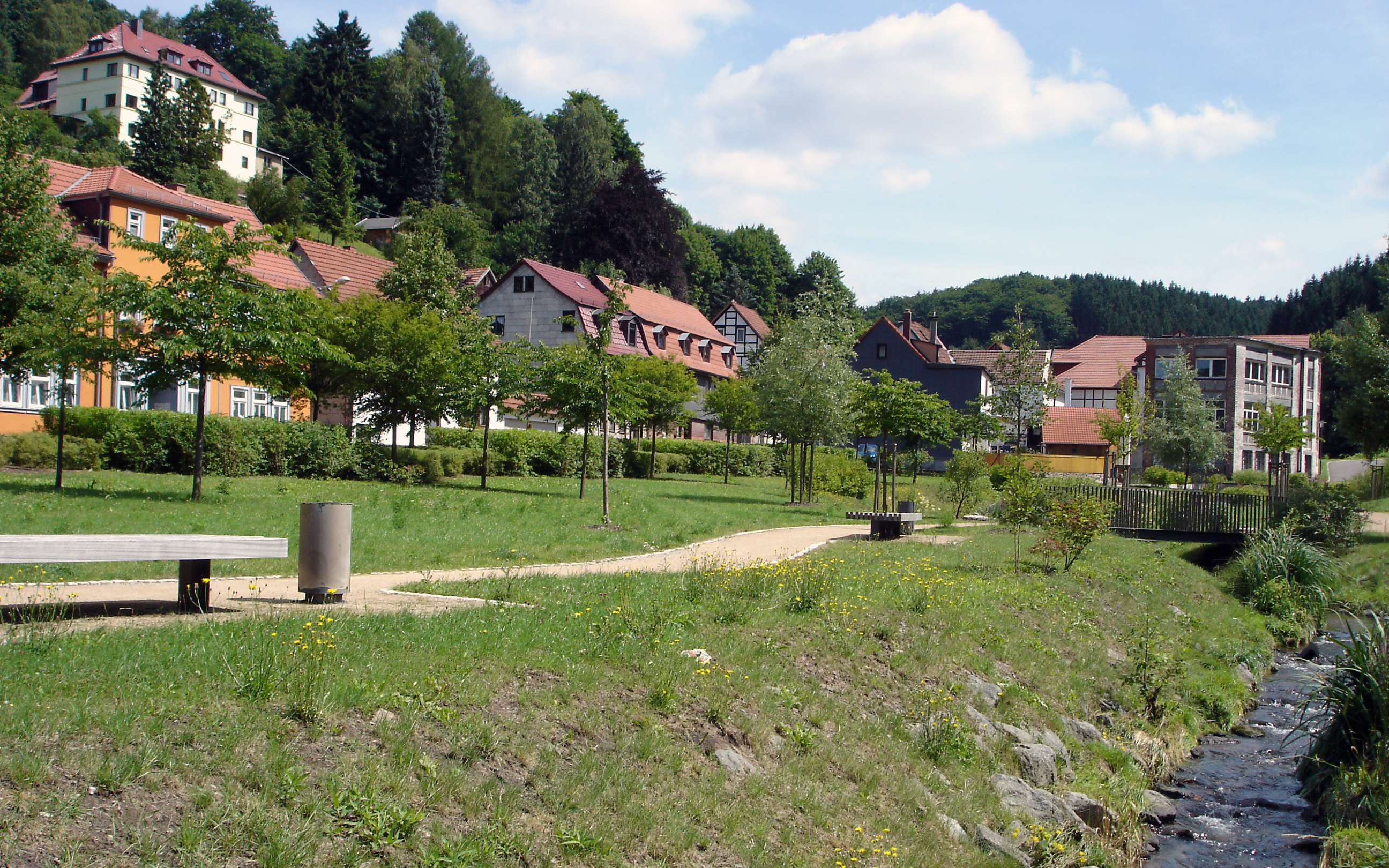 Karolinenpark in Ruhla